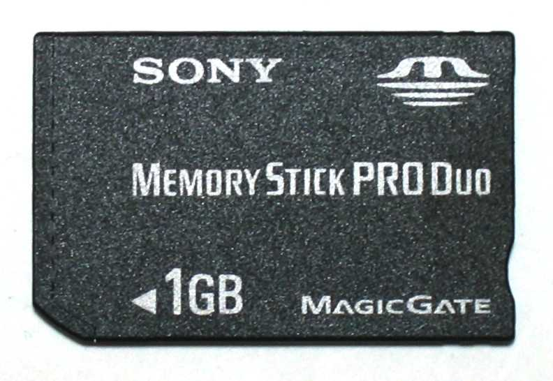 Memory Stick PRO Duo (1GB)